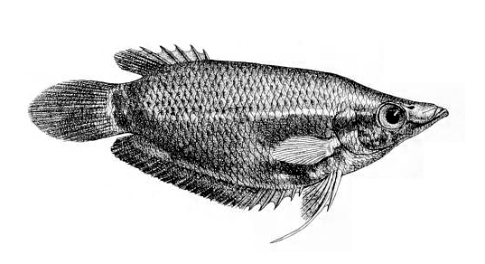 Ctenops nobilis (=Osphromenus nobilis).